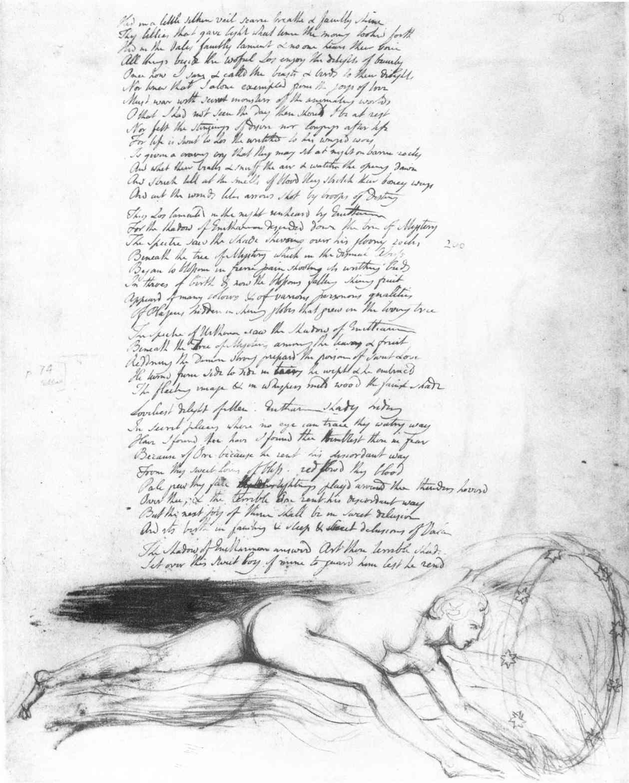 Vala, or Four Zoas Page 82